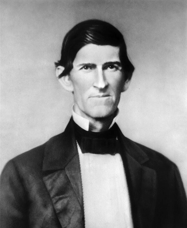 Portrait of former Mayor of Pittsburgh William Bingham